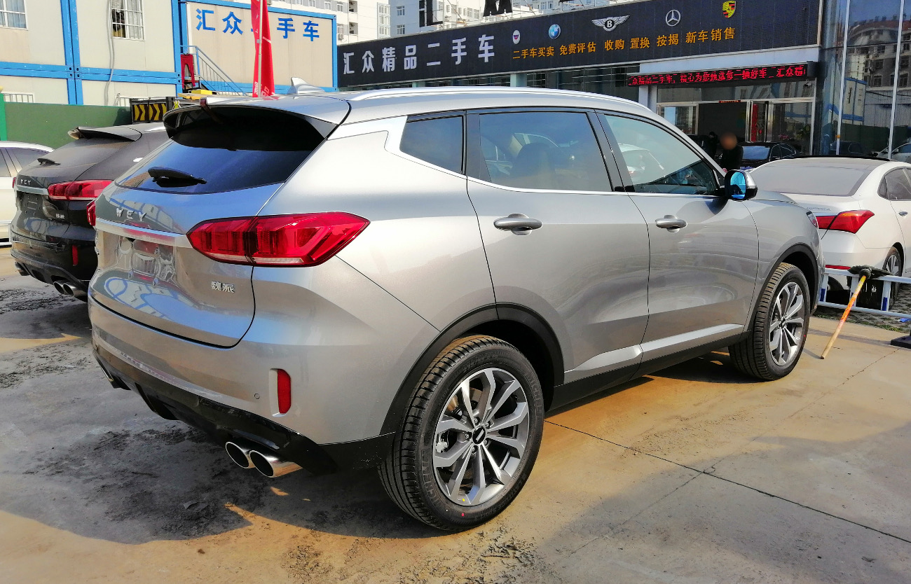 WEY VV6 photographed in Hefei, Anhui province, China.